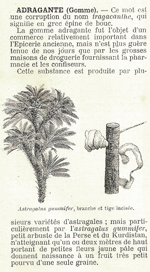 Astragalus gummifer